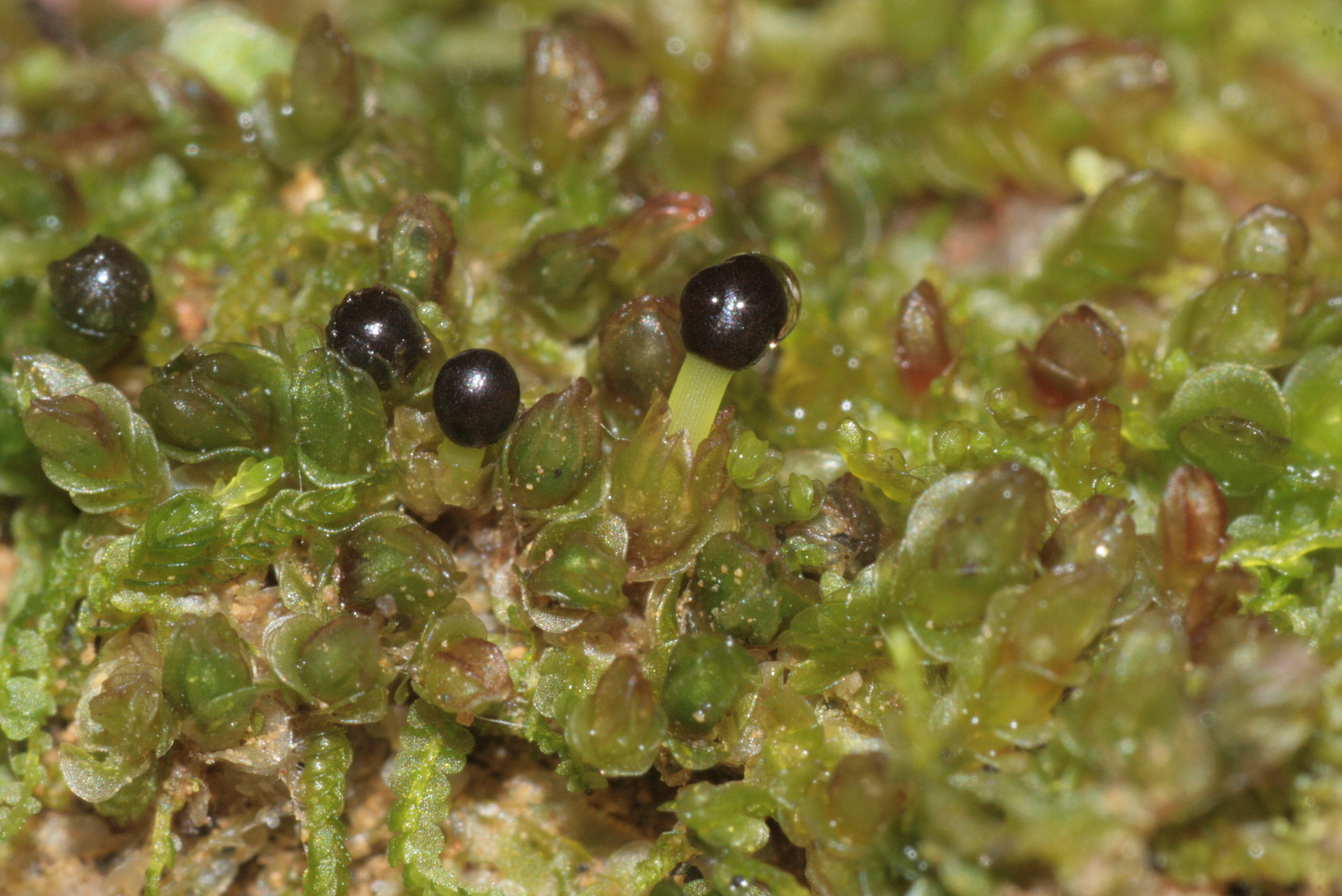 Jungermannia gracillima